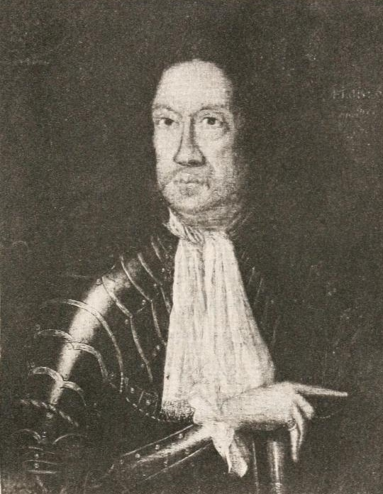 Engraving of an old portrait of Parliamentarian and colonial governor Nathaniel Johnson (1644-1713).